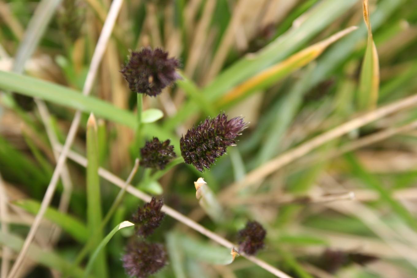 Sesleria caerulea: Flower heads (Århus Botanical Garden)